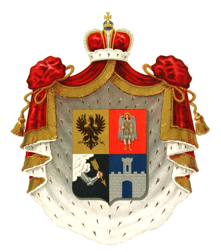 Coat of Arms of Dolgorukov family